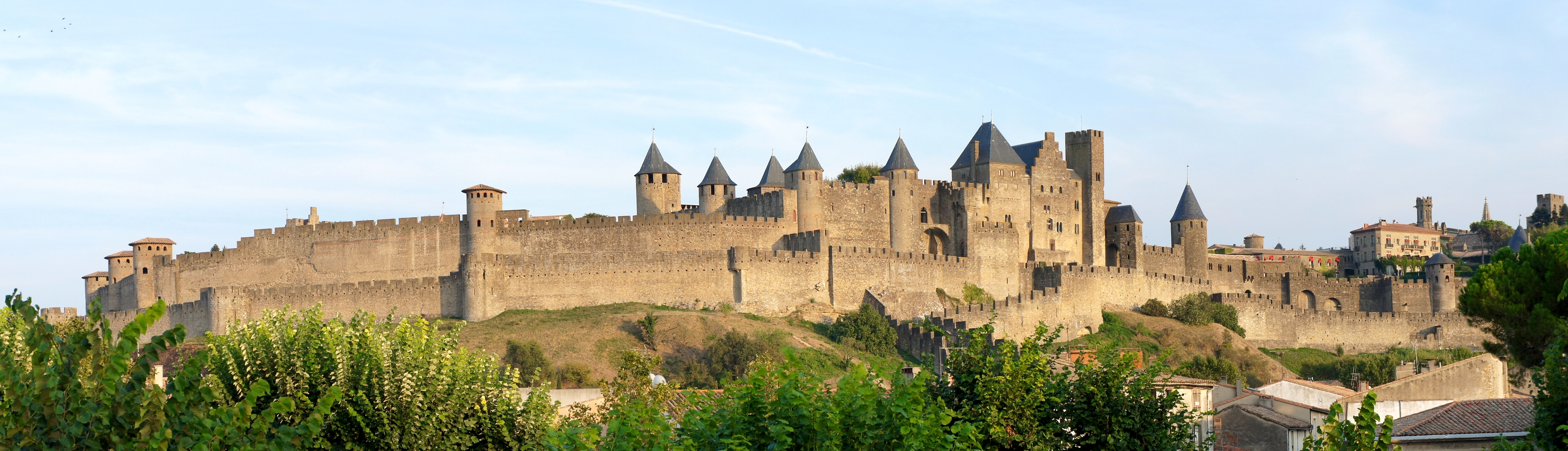 Panoramic view to the old fortified Carcassonne from the Old Bridge over the Aude River (Languedoc-Roussillon, France).